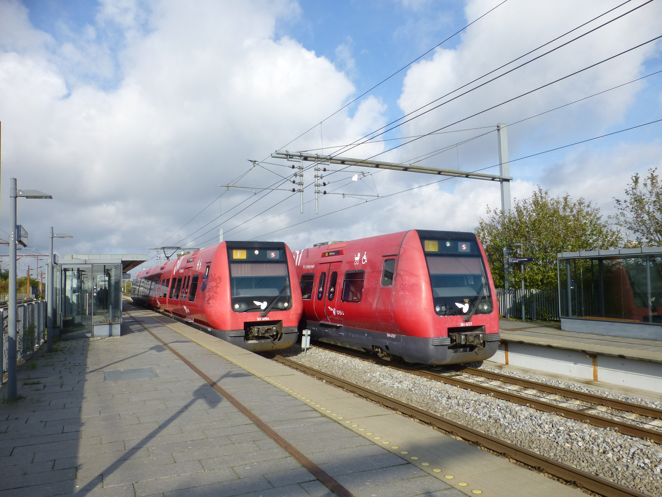 Vigerslev Alle Station, a S-train station on Ringbanen between Hellerup and Ny Ellebjerg in Copenhagen.